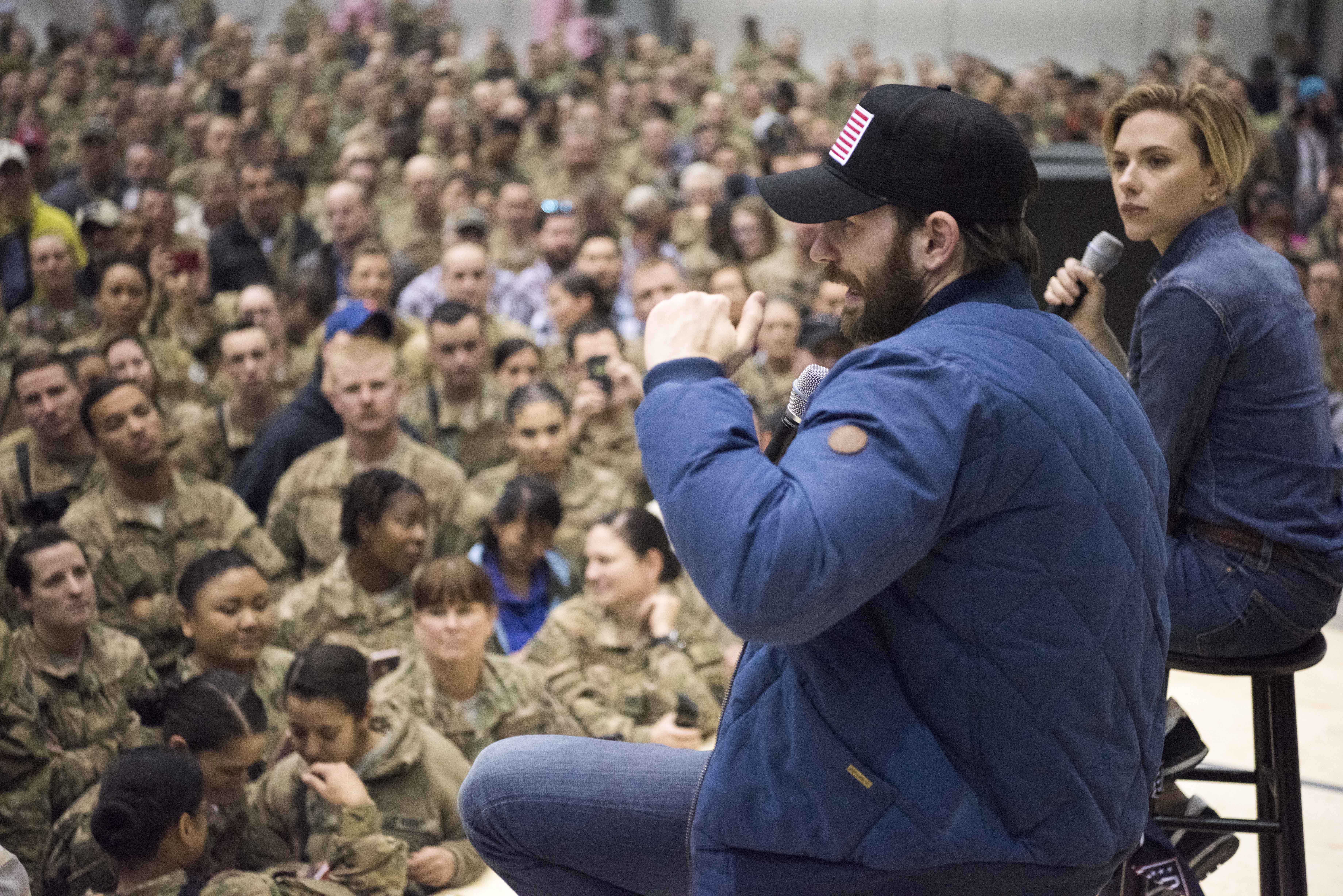 Scarlett Johansson and Chris Evans perform for service members during the USO Holiday Tour at Bagram Air Base, Afghanistan, Dec. 7, 2016. Marine Gen. Joseph F. Dunford, Jr., chairman of the Joint Chiefs of Staff, along with USO entertainers, visited service members who are deployed from home during the holidays at various locations across the globe. This year’s entertainers included actors Chris Evans, actress Scarlett Johansson, NBA Legend Ray Allen, 4-time Olympic Medalist Maya DiRado, Country Music Singer Craig Campbell, and mentalist Jim Karol. (DoD photo by Navy Petty Officer 2nd Class Dominique A. Pineiro/Released)